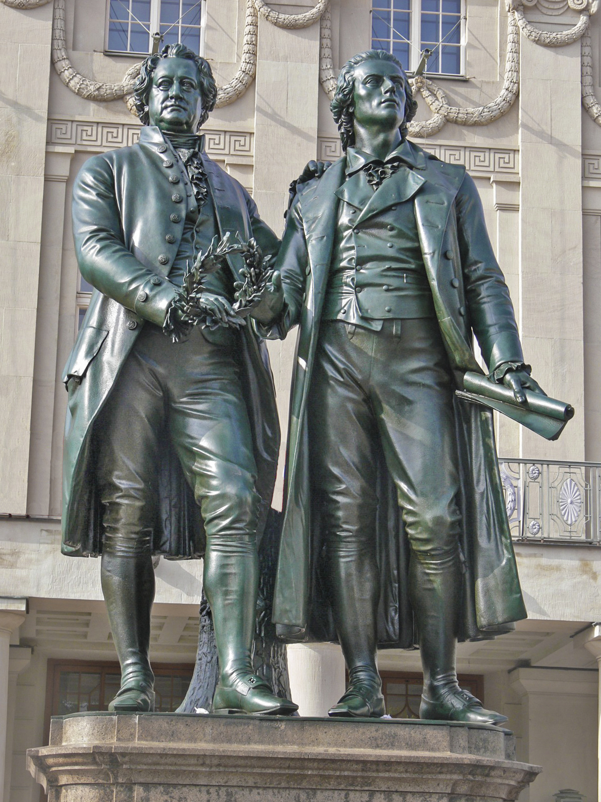 The Goethe and Schiller statue in Weimar in front of the National Theater